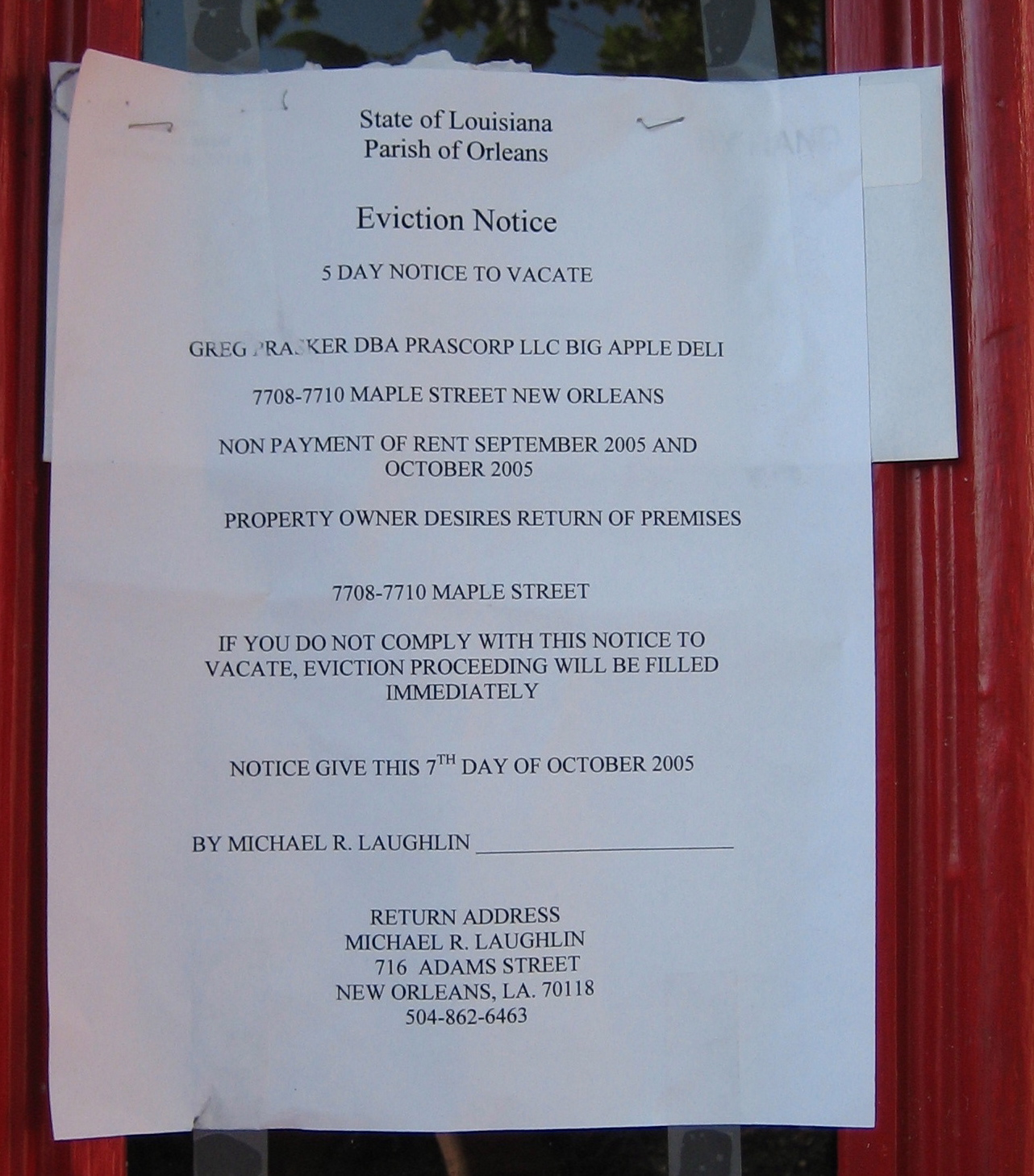 Uptown New Orleans after Hurricane Katrina: Close up of door of File:BigAppleDeli.jpg, showing eviction notice for non payment of rent. Note that there had been no mail service in the city under mandatory evacuation since late August.